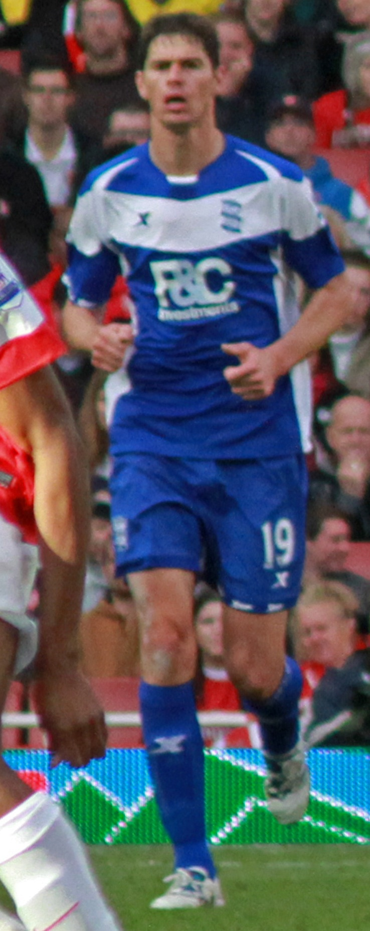 Arsenal v Birmingham City The Emirates 16 October 2010 (2-1)